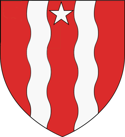 Coat of arms of the Downes.